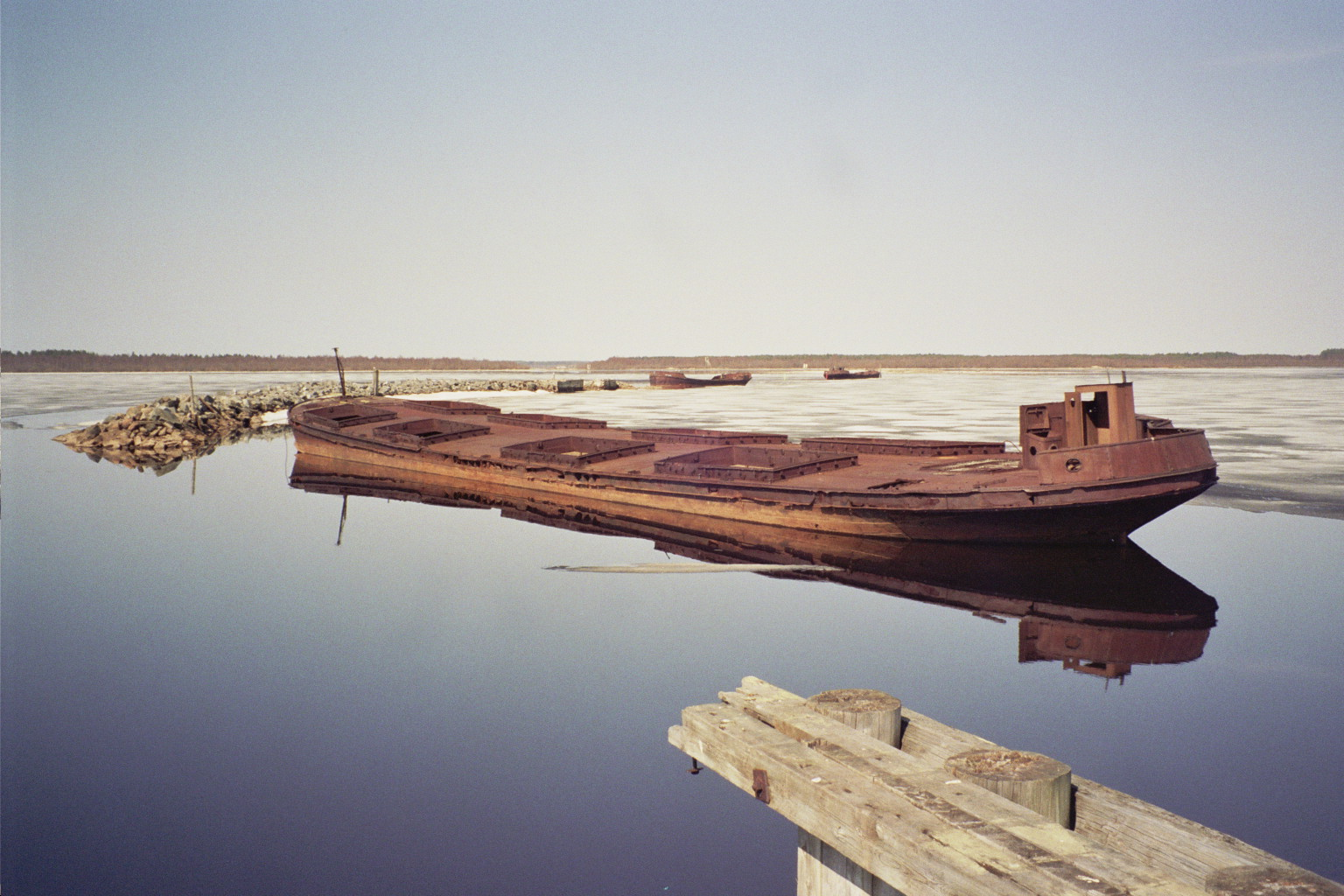 An old breakwater partially made of wrecks, protecting what once was the harbour of the Pateniemi sawmill in Oulu, Finland.